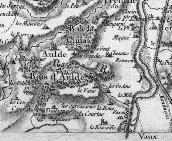 Auda in the map of Cassini